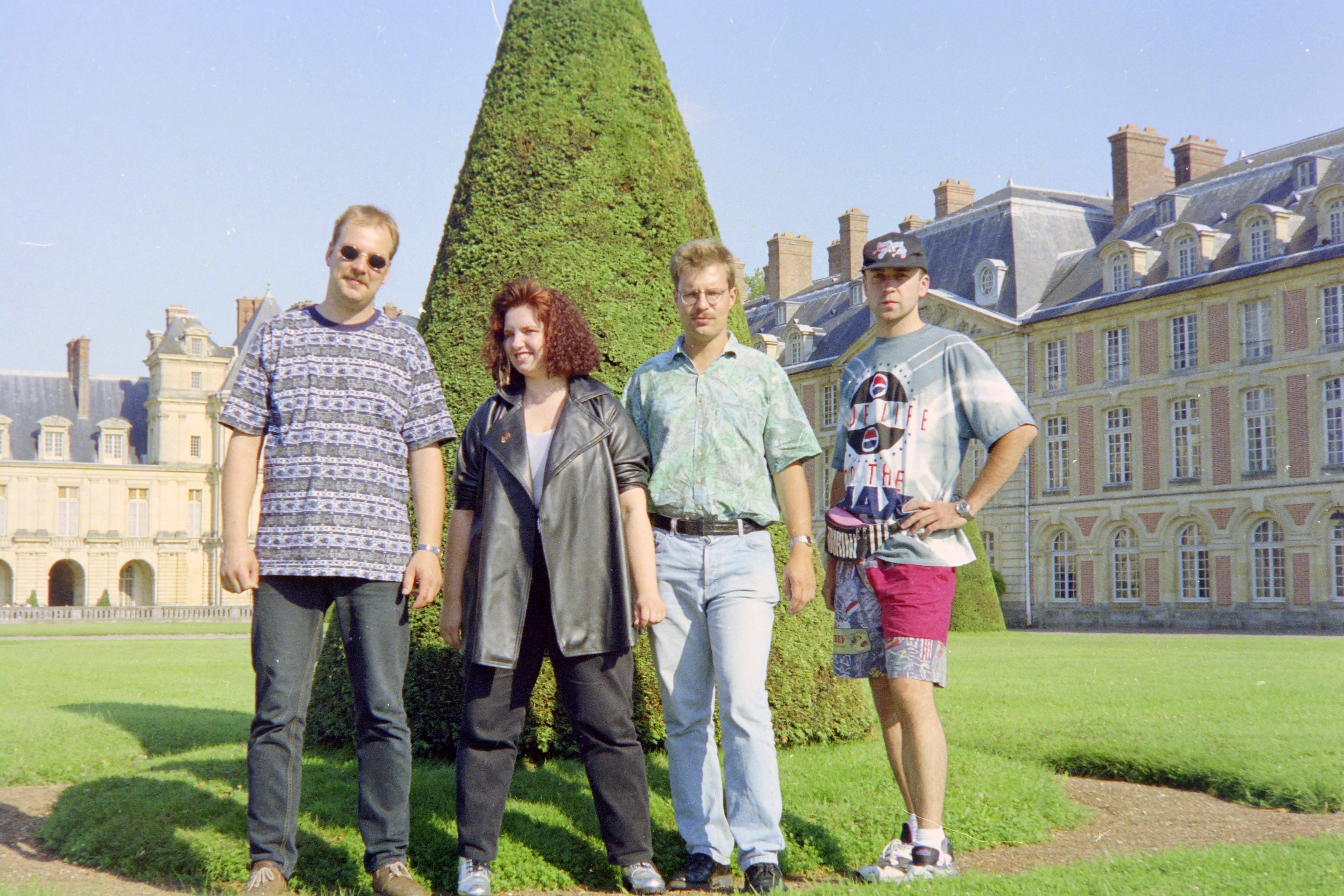 The photo shows the band in the middle of the castle of Fontainebleau.